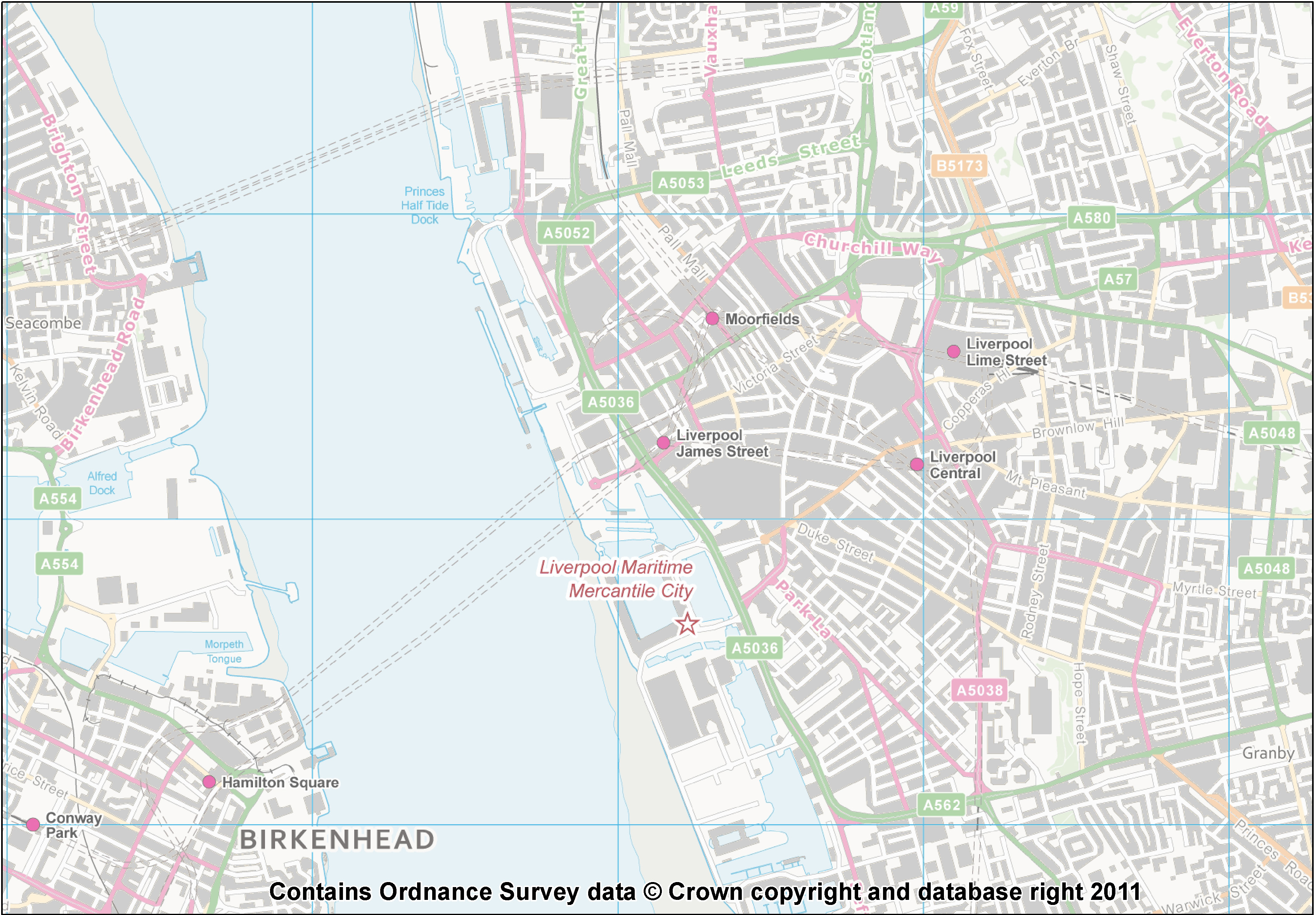 map of central Liverpool using OS Vectormap District